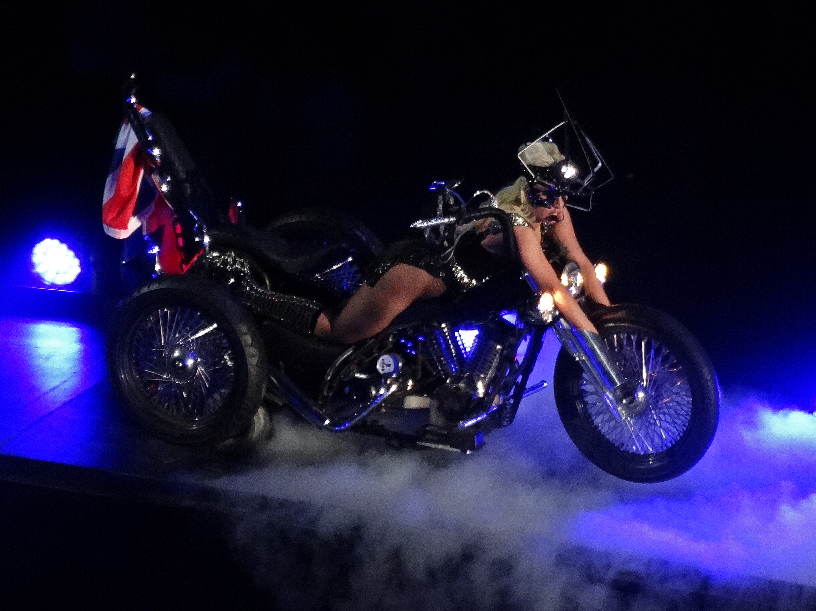 Lady Gaga performing "Heavy Metal Lover" on The Born This Way Ball Tour.